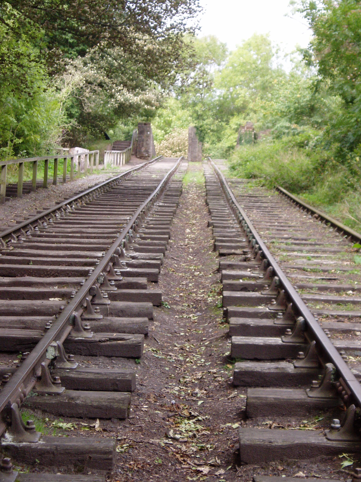 Photo of the Hay Inclined Plane, Shropshire, taken 16 Sep 2004, 16:02 by Ostrich